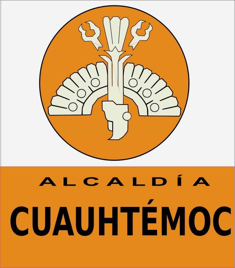 Actualización de escudo a Alcaldía